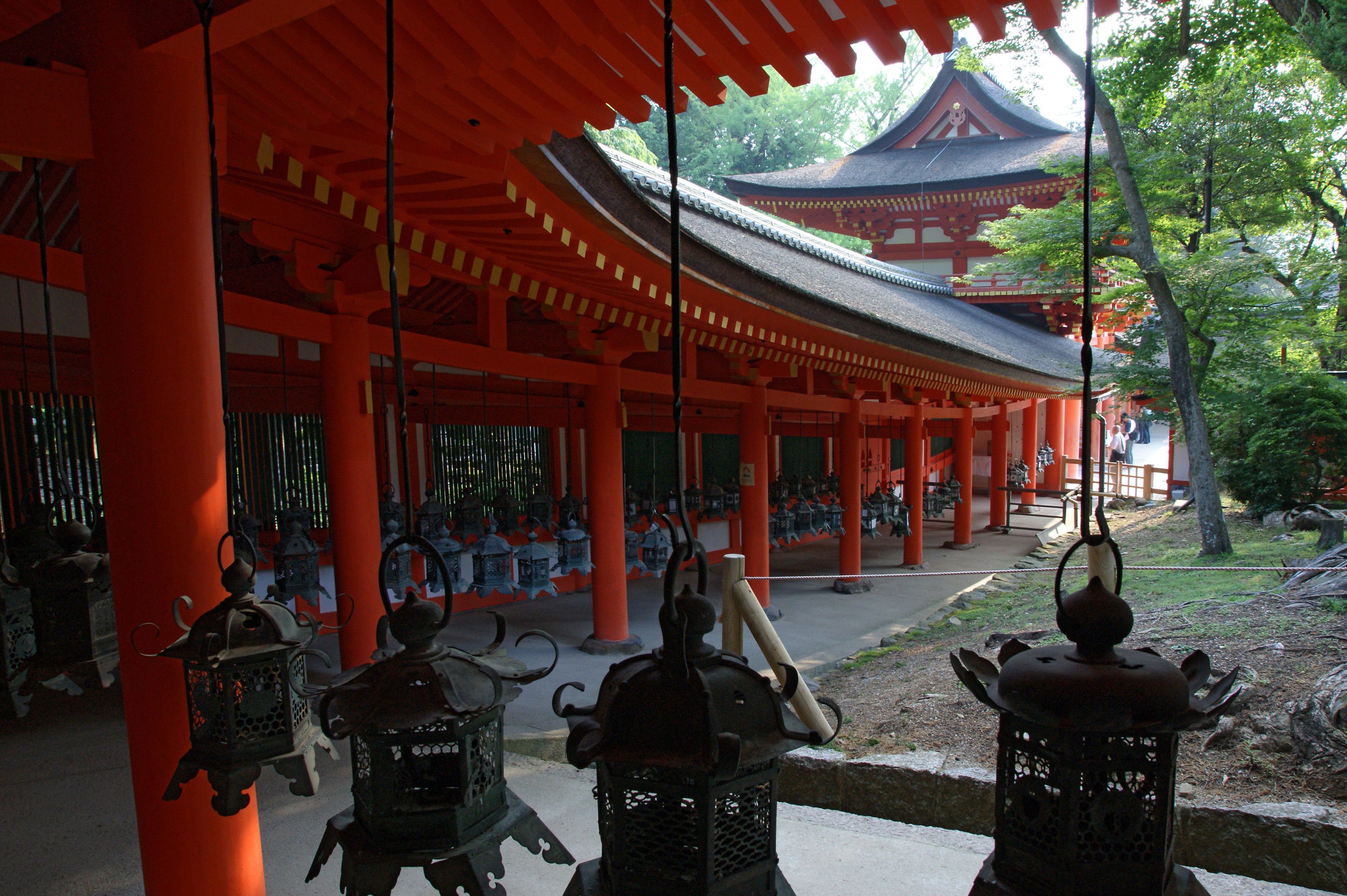 Kasuga-taisha in Nara, Nara prefecture, Japan